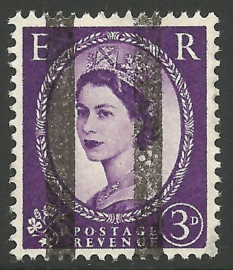 3d British Wilding series training stamp. Design first issued 1954.